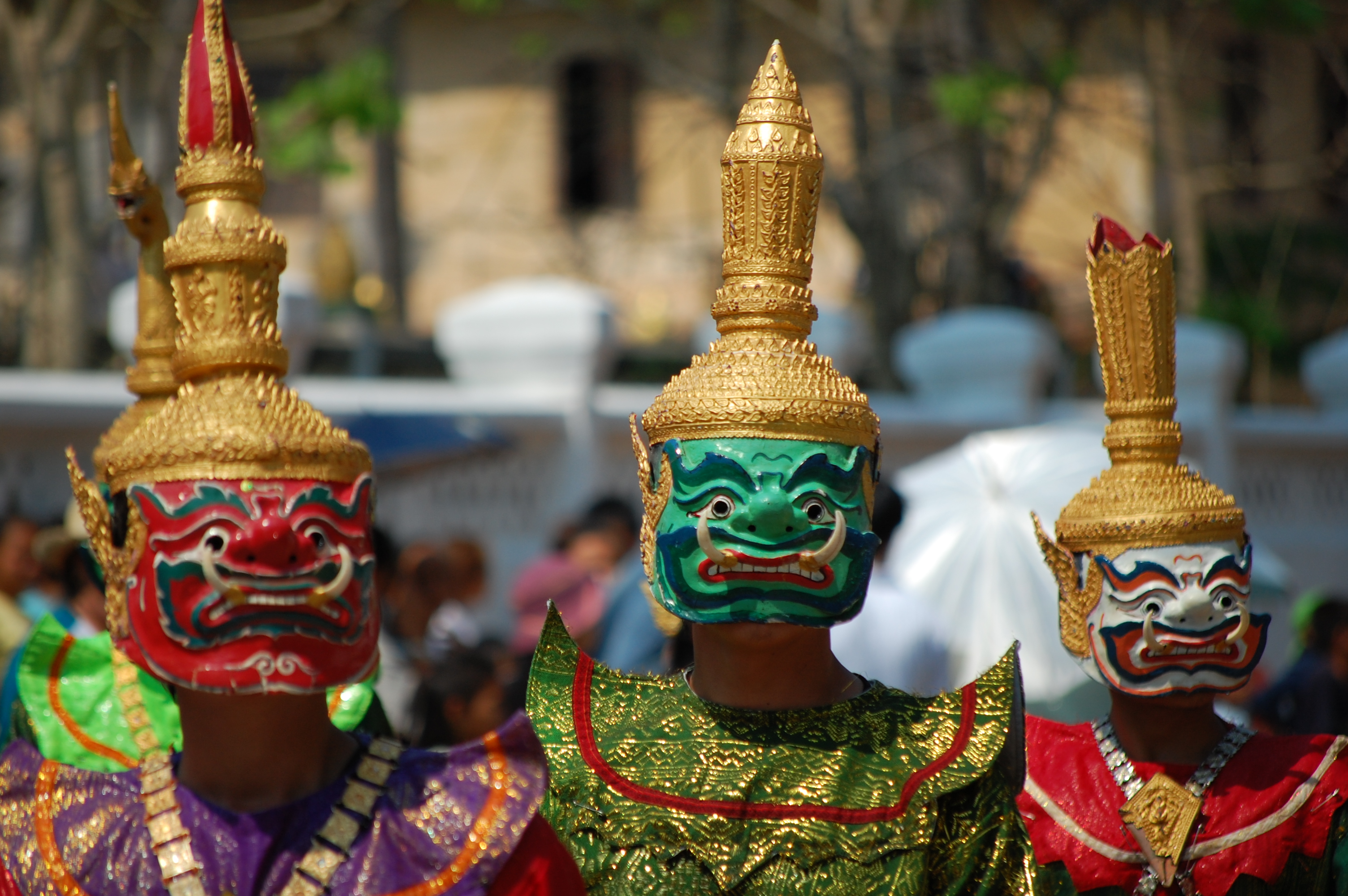 There was a whole host of dancers in traditional garb which were followed by...